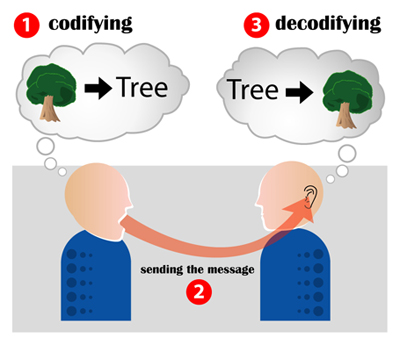 Luis Javier Rodriguez Lopez, done for wikipedia, might be found at my webpage in a future